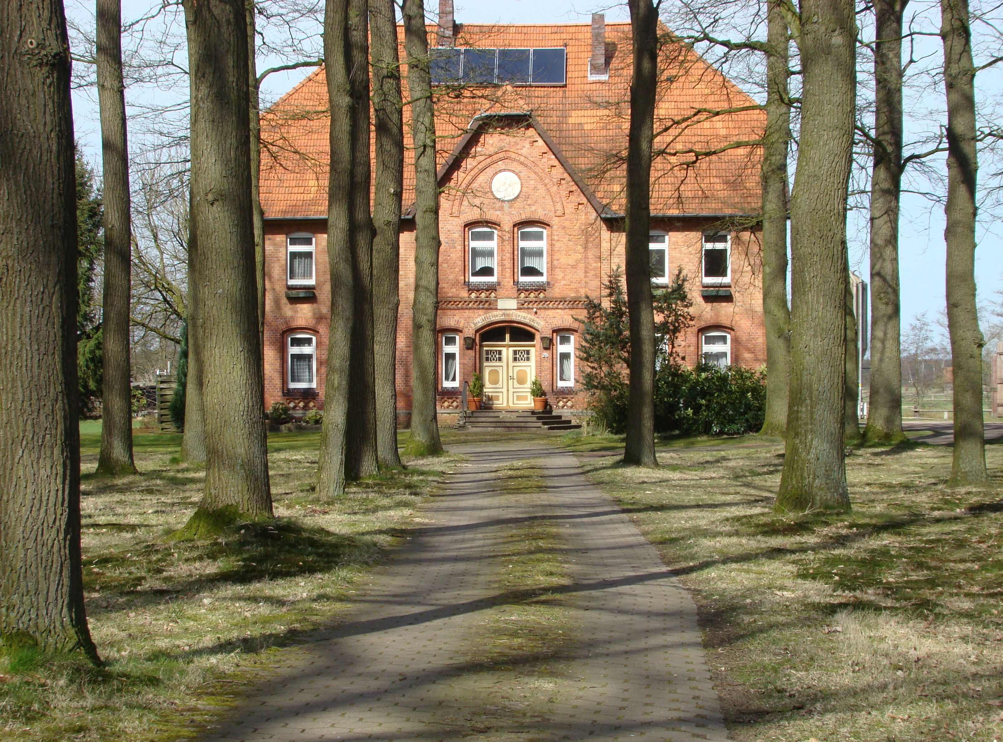 The former Sattelhof or manor house in Weesen, Celle district, Germany